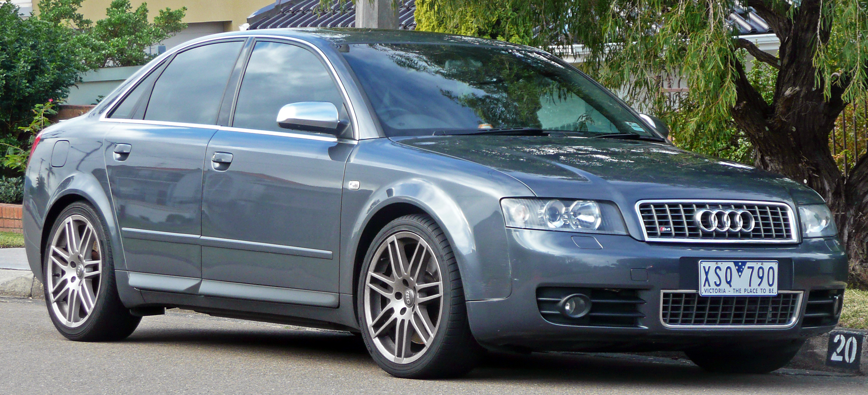 2003–2005 Audi S4 (B6) sedan, with 2006–2008 Audi RS 4 (8EC) quattro 18-inch wheels. Photographed in Cronulla, New South Wales, Australia.